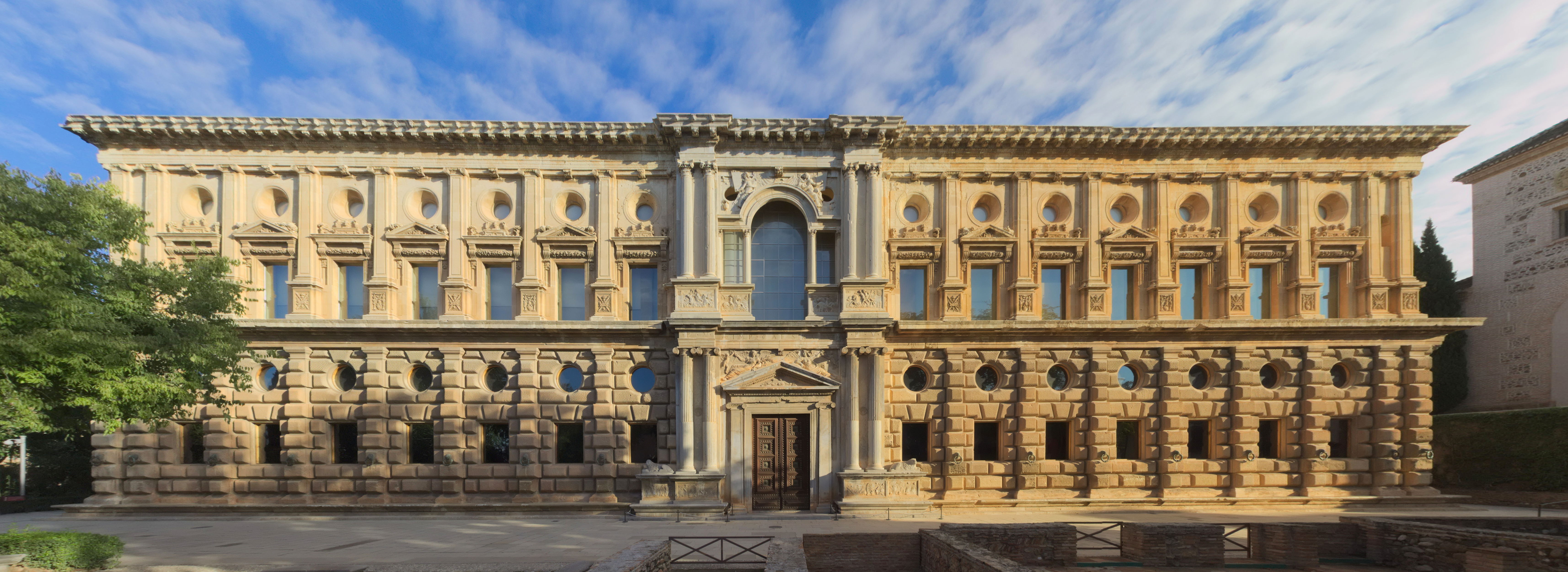 Palace of Charles V, Alhambra - southern façade